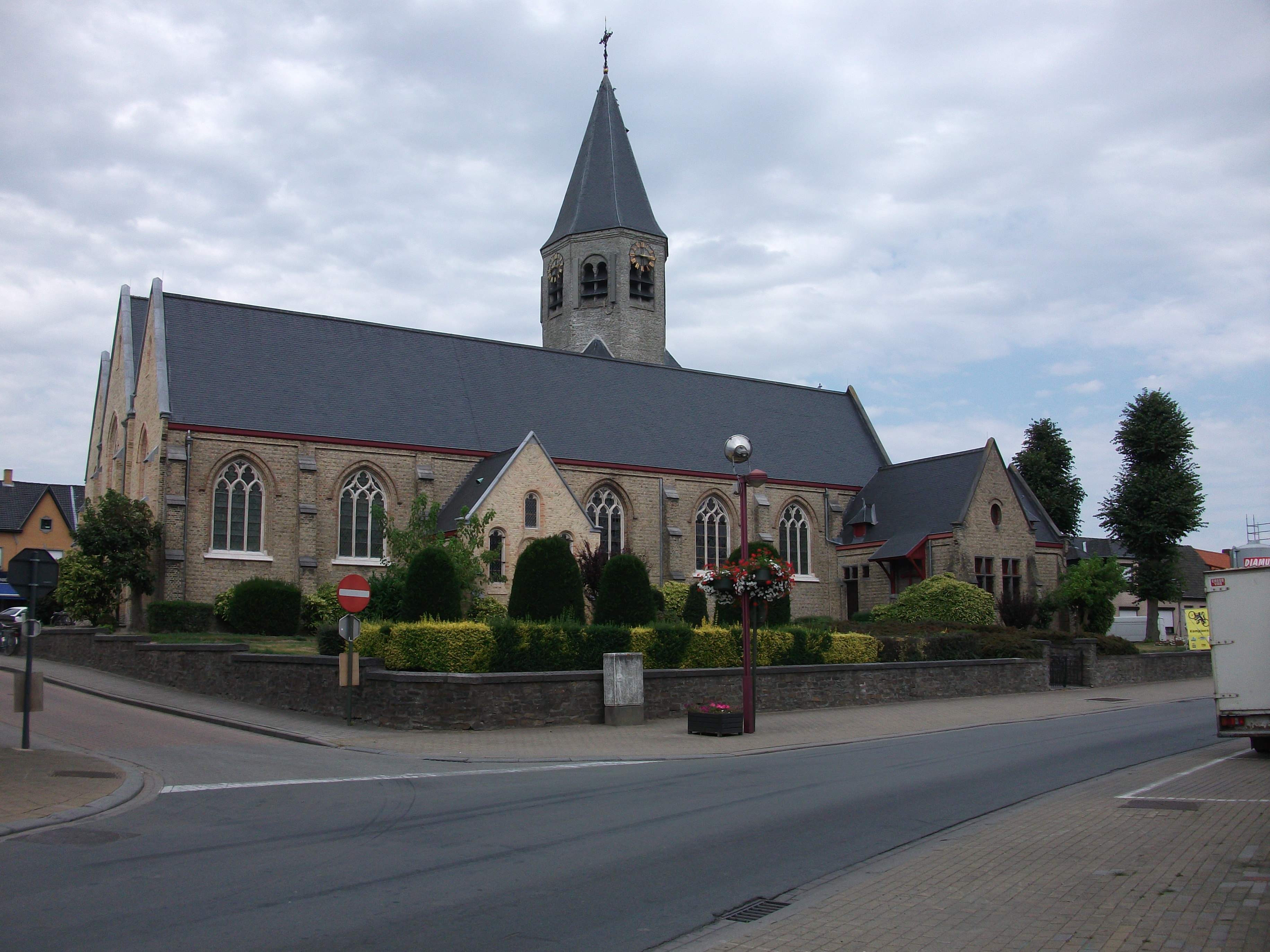 Saint-Martin of Tours-church in Koolskamp, West-Flanders, Belgium